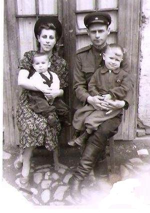 1951 р., Закарпаття (Сибірний А.А. 1-й праворуч)